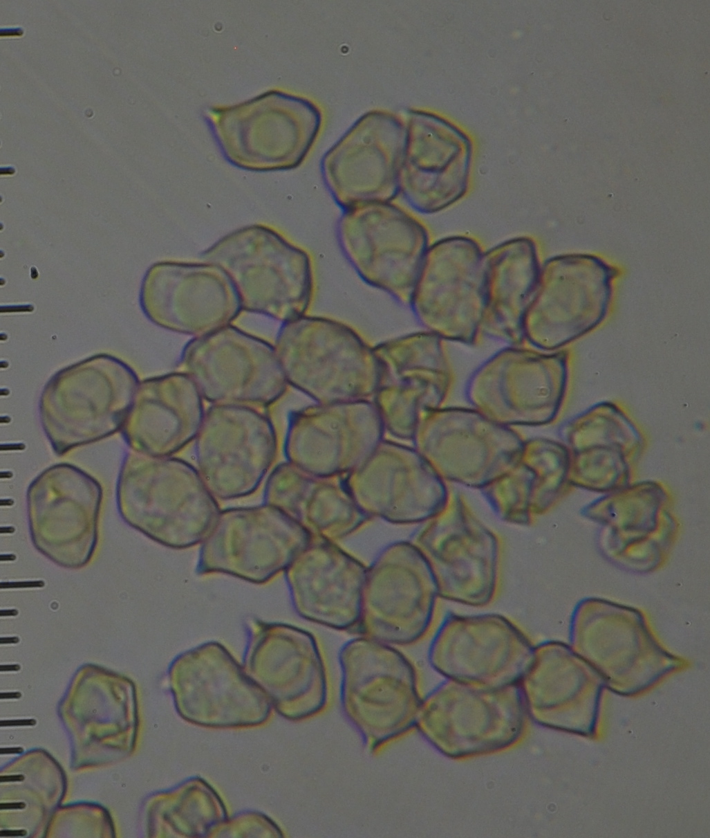 Entoloma haastii (G. Stev.) Location: Auckland, New Zealand Notes: Found in leaf litter under very old Leptospermum scoparium in native New Zealand forest.Pileus: 20-50mm in diameter. Hemispheric to plane. Colour silvery blue grey.Stipe: 50-60mm long by 10-15mm in diameter. Colour pale blue.Lamellae: Attachment adnate. Close to subdistant. Broad. Colour pale pink. Spores. All microscopy scale divisions=2.5 microns.